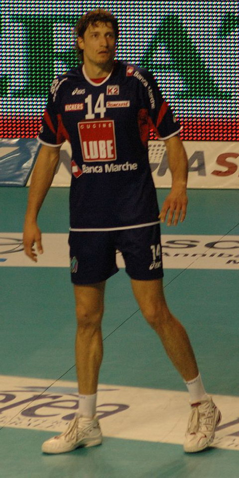 The Serbian volleyball player Ivan Miljkovic